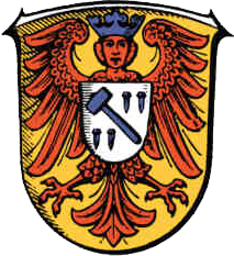 Coat of Arms of Feldatal